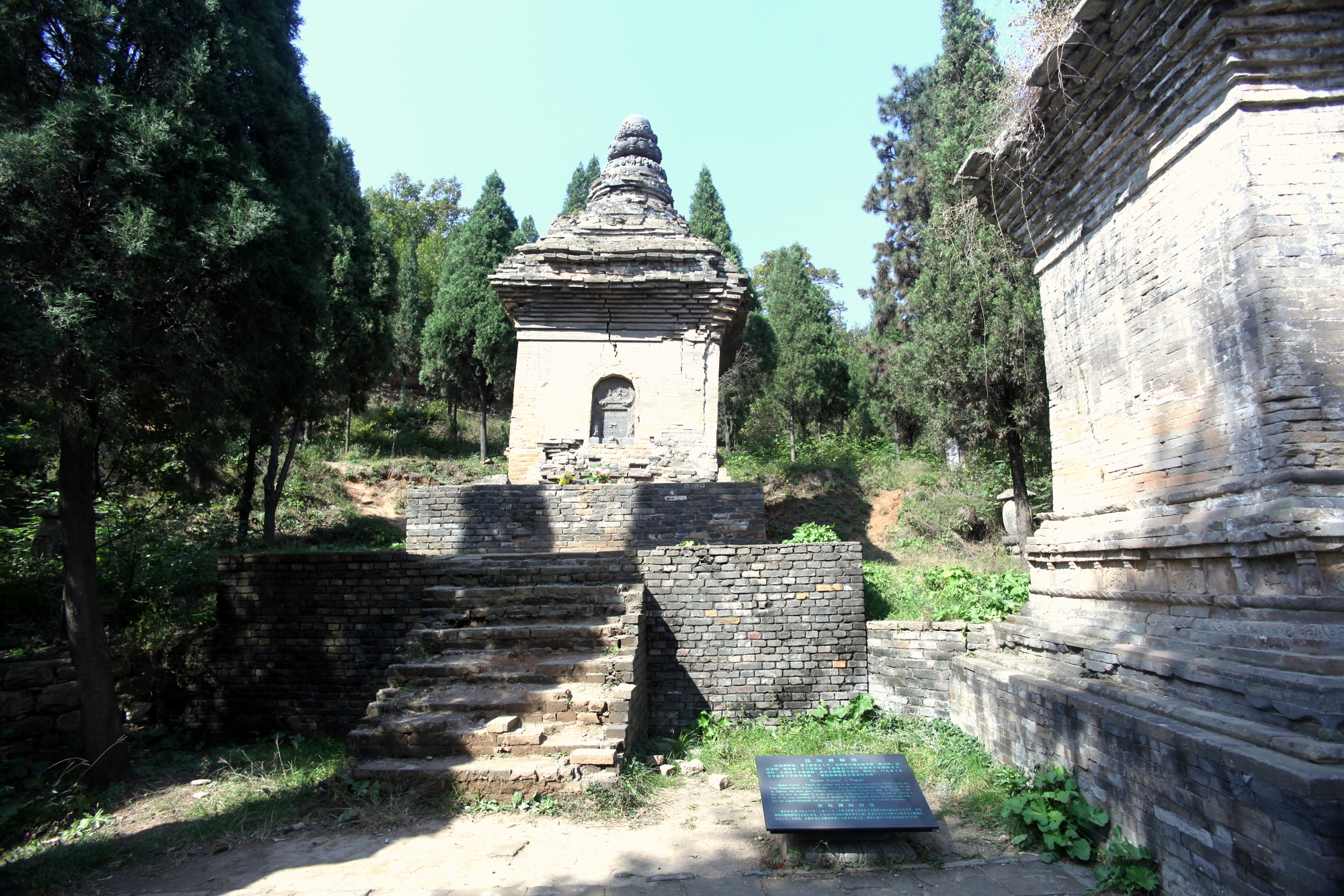 Fa Wan Pagoda built 791, the oldest in the western cemetery of the Shaolin temple.